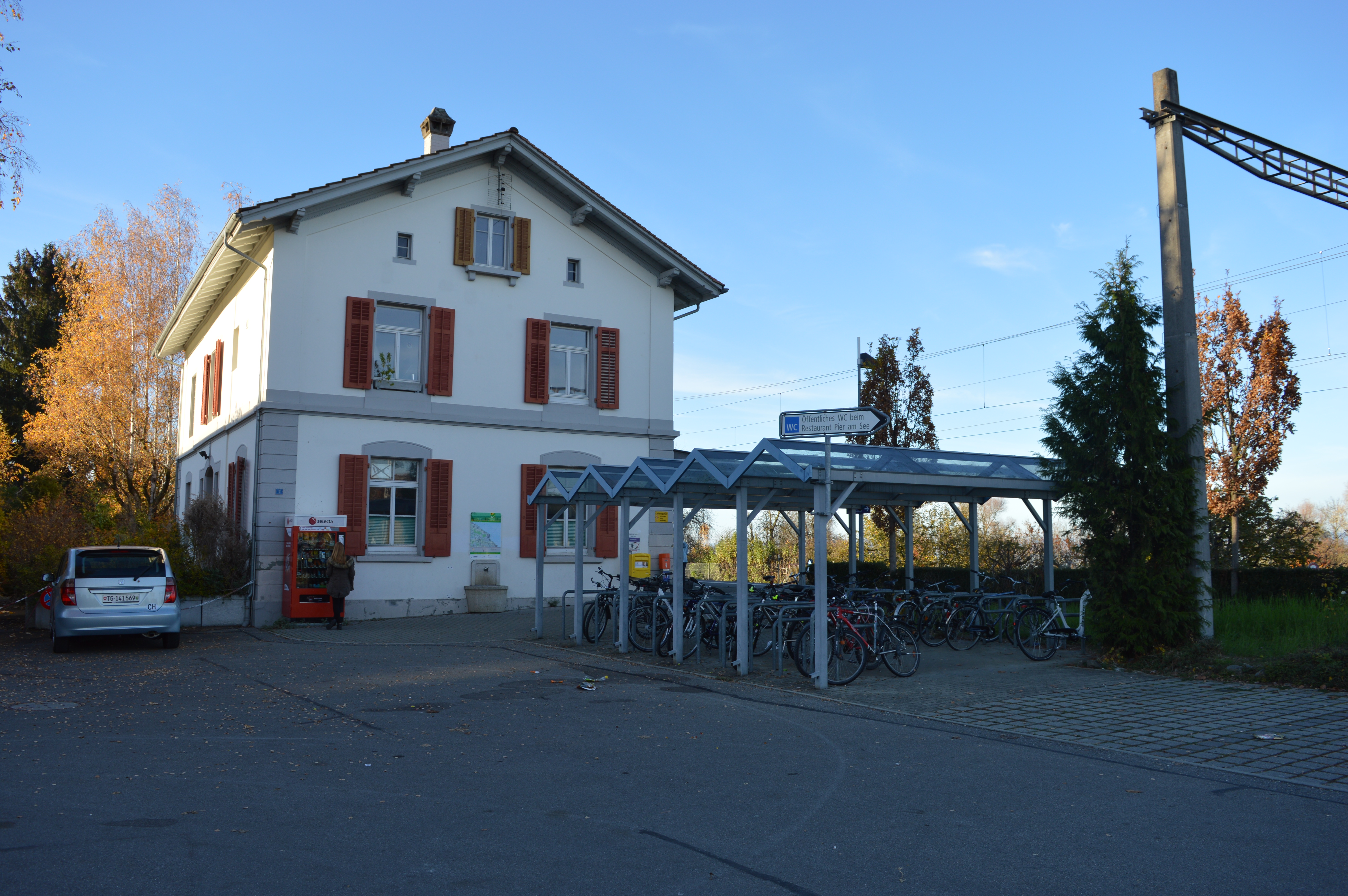 Train station of Uttwil, canton of Thurgovia, Switzerland